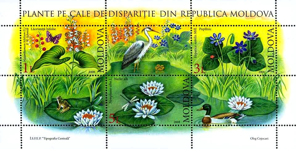 Endangered species of plants: 1 L.: Maianthemum bifolium, commonly known as the false lily of the valley 3 L.: Hepatica nobilis (this scientific name is the old one, it is now called Anemone hepatica). 5 L.: Nymphaea alba : commonly known as the Nenuphar, or the European white water Lilly. Stamps of Moldova.